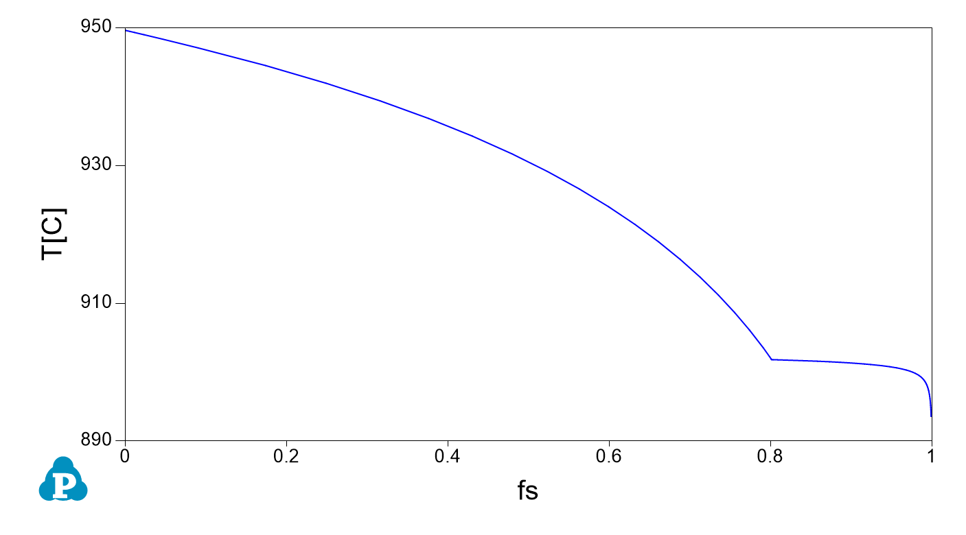 Solidification -. using the Scheil rule - of a binary Cu Zn alloy, at composition Zn in weight 30% using free version of Computherm Pandat software